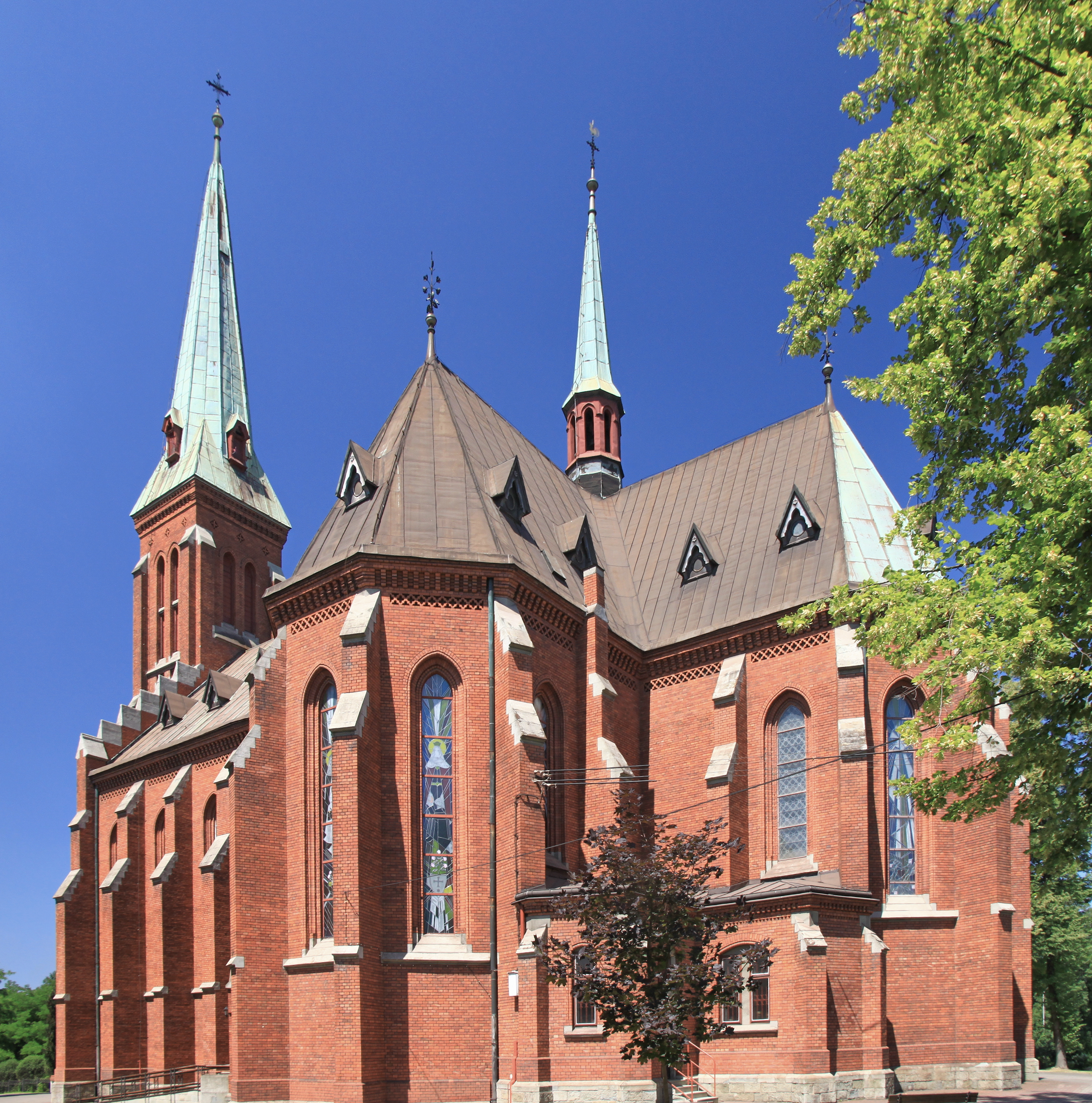 Saint Albert church, Staré Město (Třinec). Moravian-Silesian Region, Czech Republic.